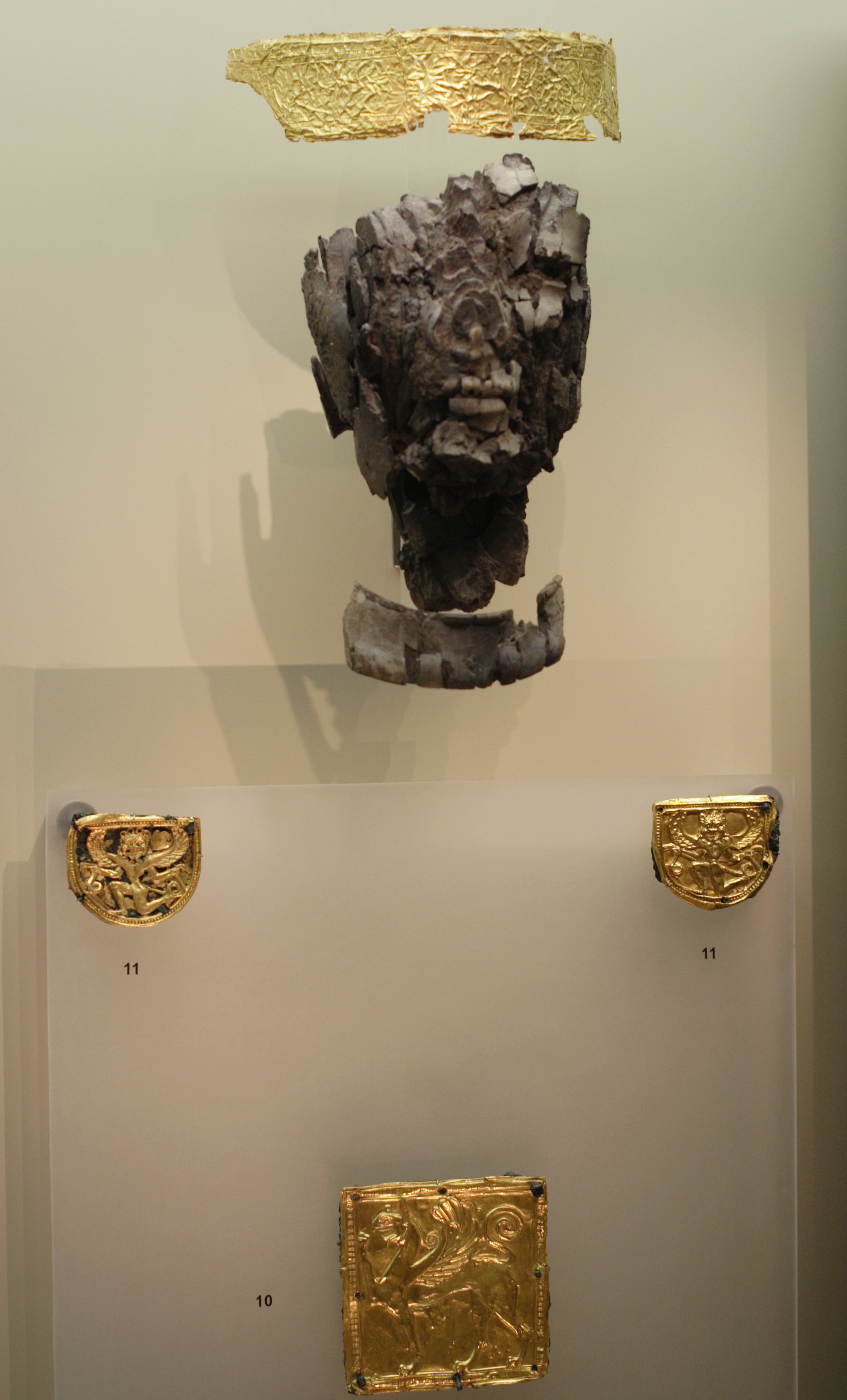 Leto (divine mother of Apollo and Artemis), unfortunately poorly preserved torso. Perhaps torso of cult statue. Ivory and gold. Finding in Delphi, probably Ionian work, around 550 BC. Archaeological Museum of Delphi.